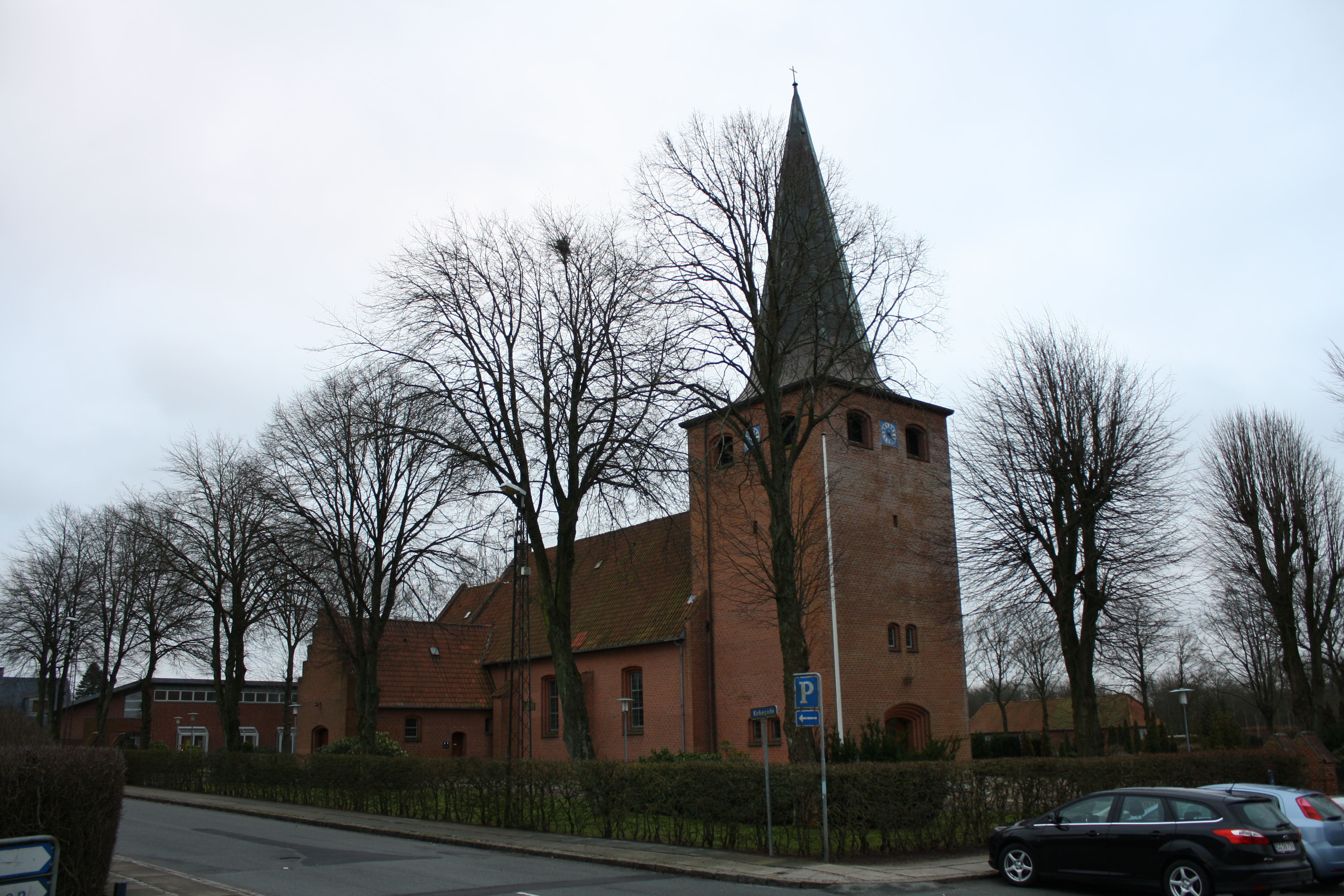 Build 1941.